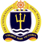 Naval War College coat of arms